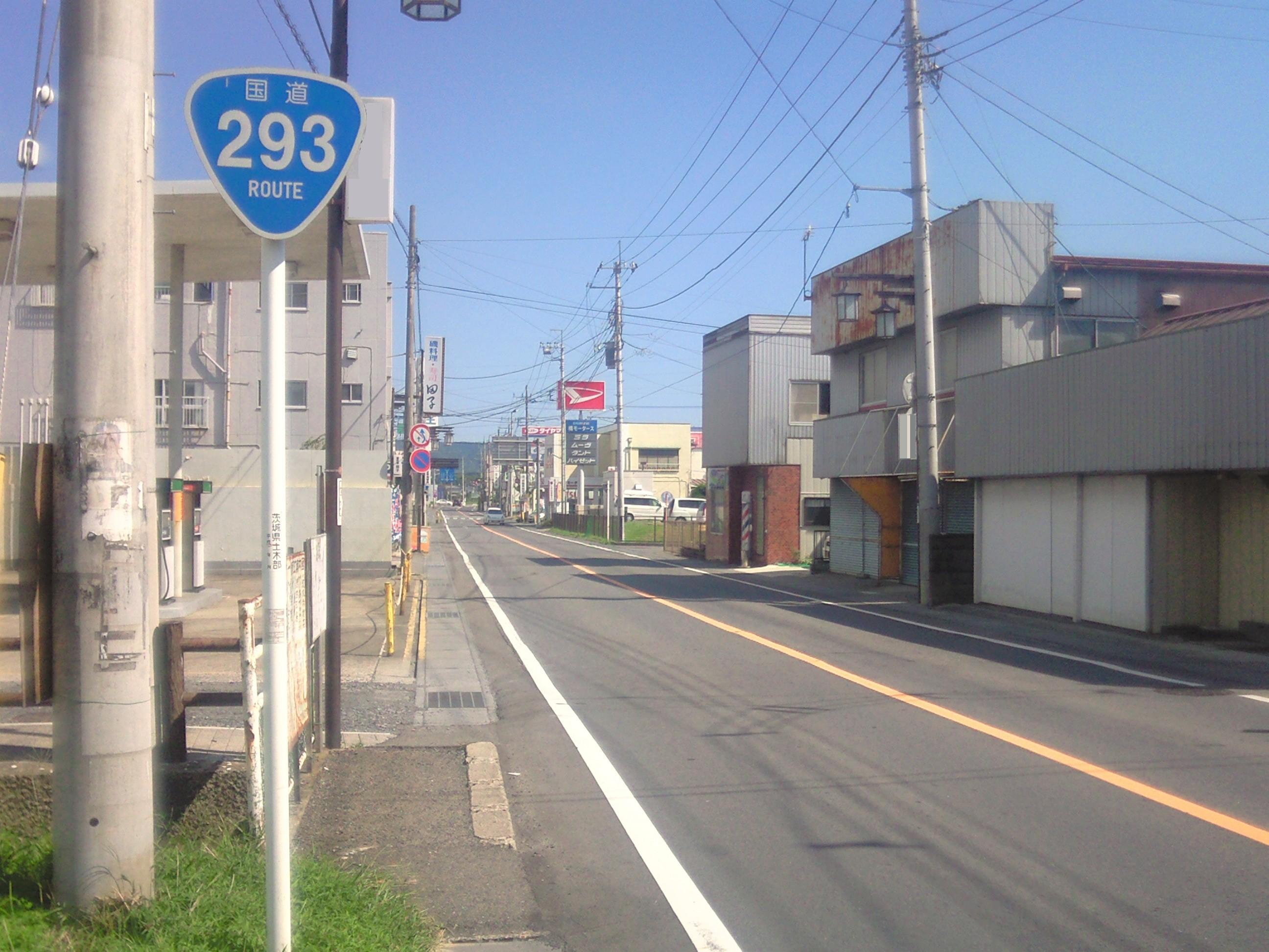 This picture is the Route 293 passing in front of the station Hitatioota.